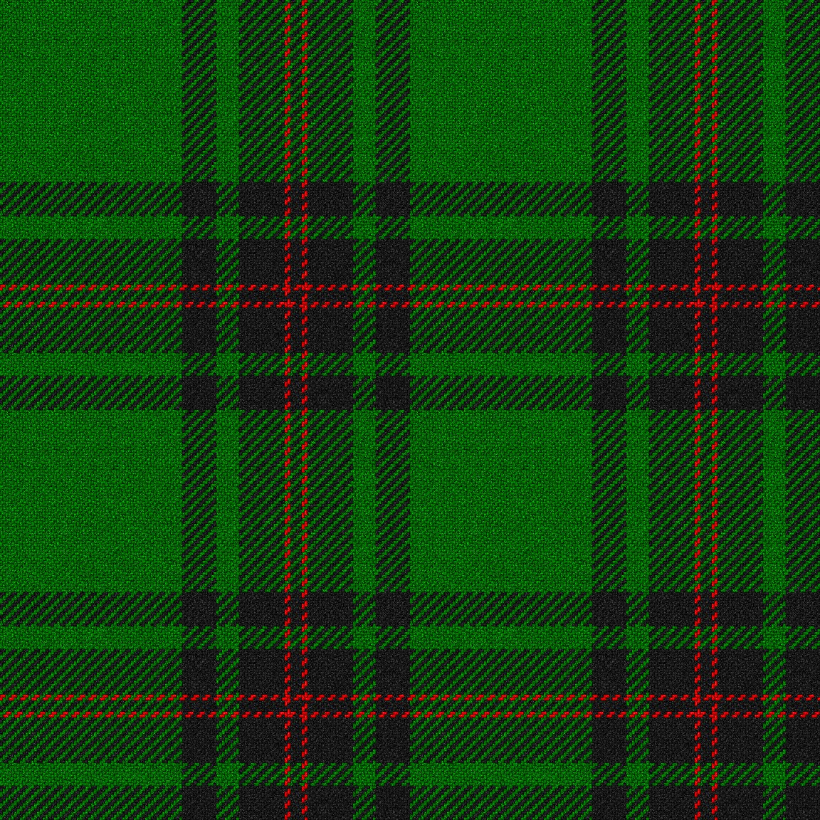 Digital representation of the Duke of Fife tartan. This tartan is sometimes called the Fife District Tartan. It was first designed to celebrate the marriage between Louise, daughter of Edward VII to Alexander Duff, 1st Duke of Fife. The thread count used in this image is Green-64, Black-12, Green-8, Black-16, Red-2, Black-4.